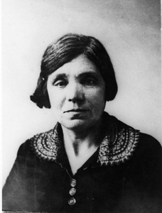 Maria_Ikonomou